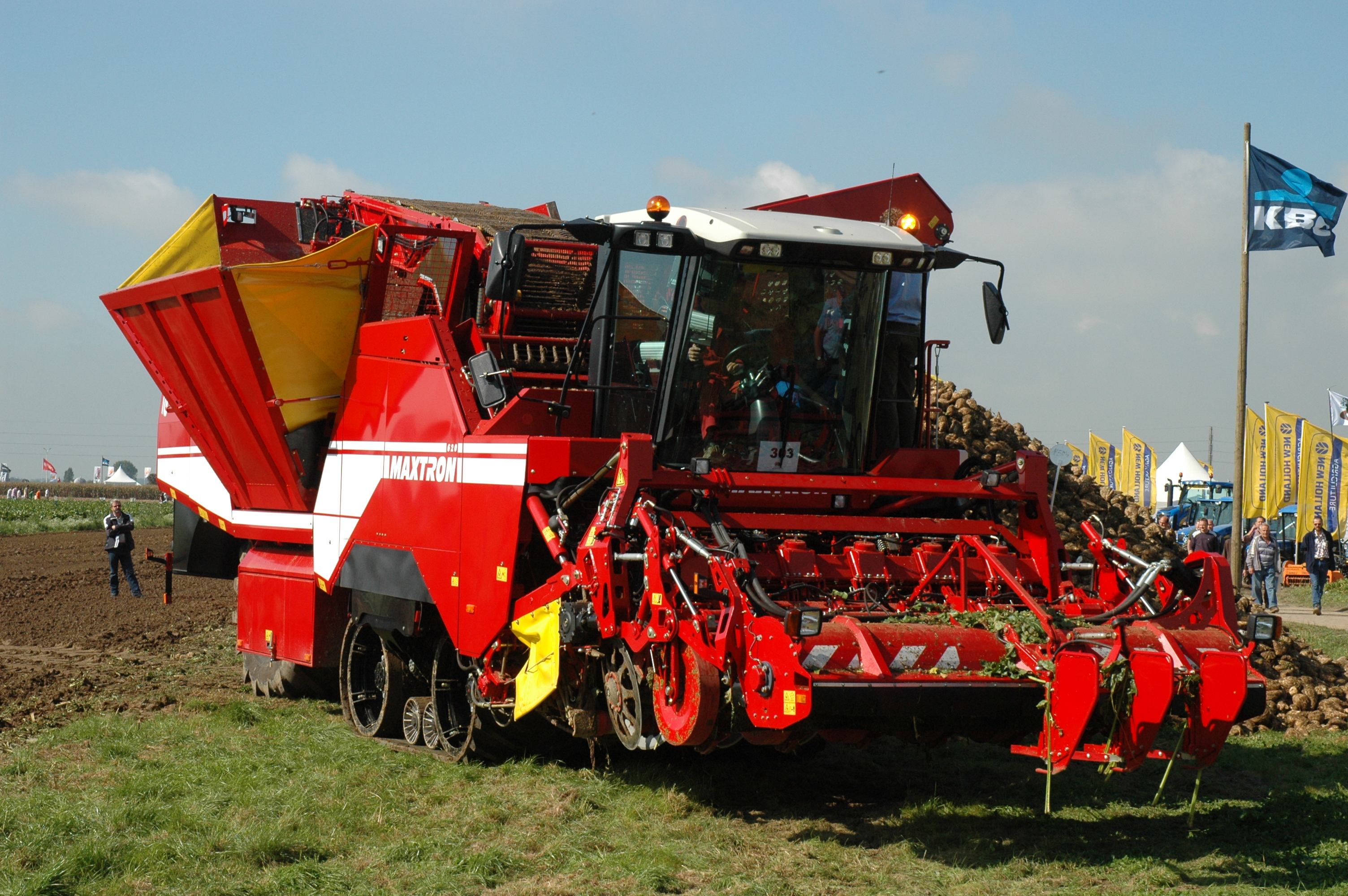 Grimme Maxtron 620 at Werktuigendagen 2007